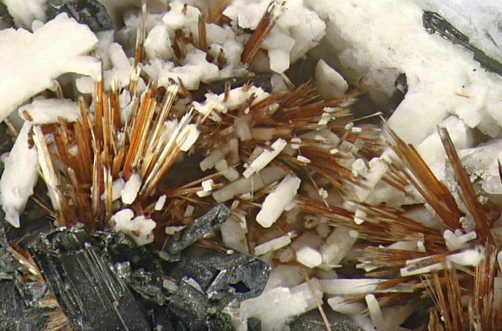 Astrophyllite, Nenadkevichite subgroup (FOV 7.0 x 4.7 mm) Locality: Poudrette quarry (Demix quarry; Uni-Mix quarry; Desourdy quarry; Carrière Mont Saint-Hilaire), Mont Saint-Hilaire, Rouville RCM, Montérégie, Québec, Canada FOV 7.0 x 4.7 mm. Found May 1995. MOB coll. The white/cream prisms are probably ordinary nenadkevichite. A sample was sent for analysis but I never got any results. (There is also some tabular microcline of almost the same color. The "nenadkevichite" is pseudo-hexagonal.)